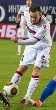 Admir Ćatović with FC Khimki in a game against FC Dynamo Moscow.